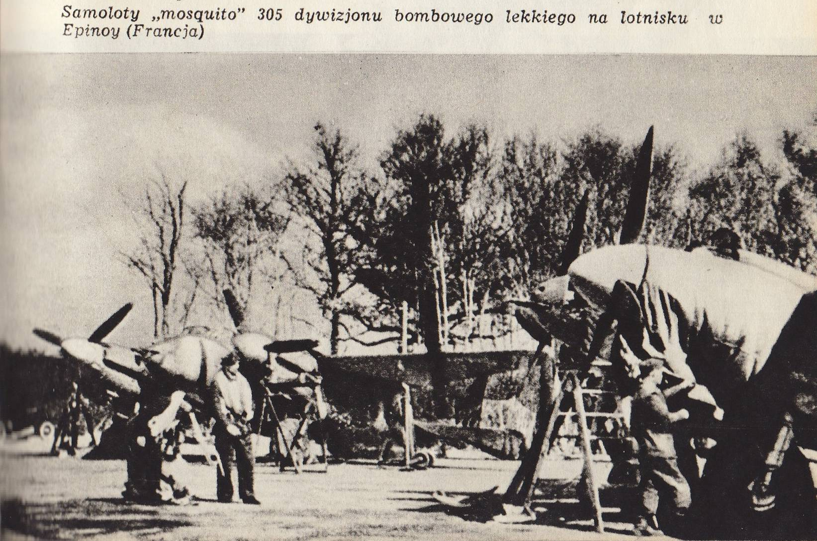 Mosquitos of RAF No. 305 Polish Bomber Squadron in Épinoy, France